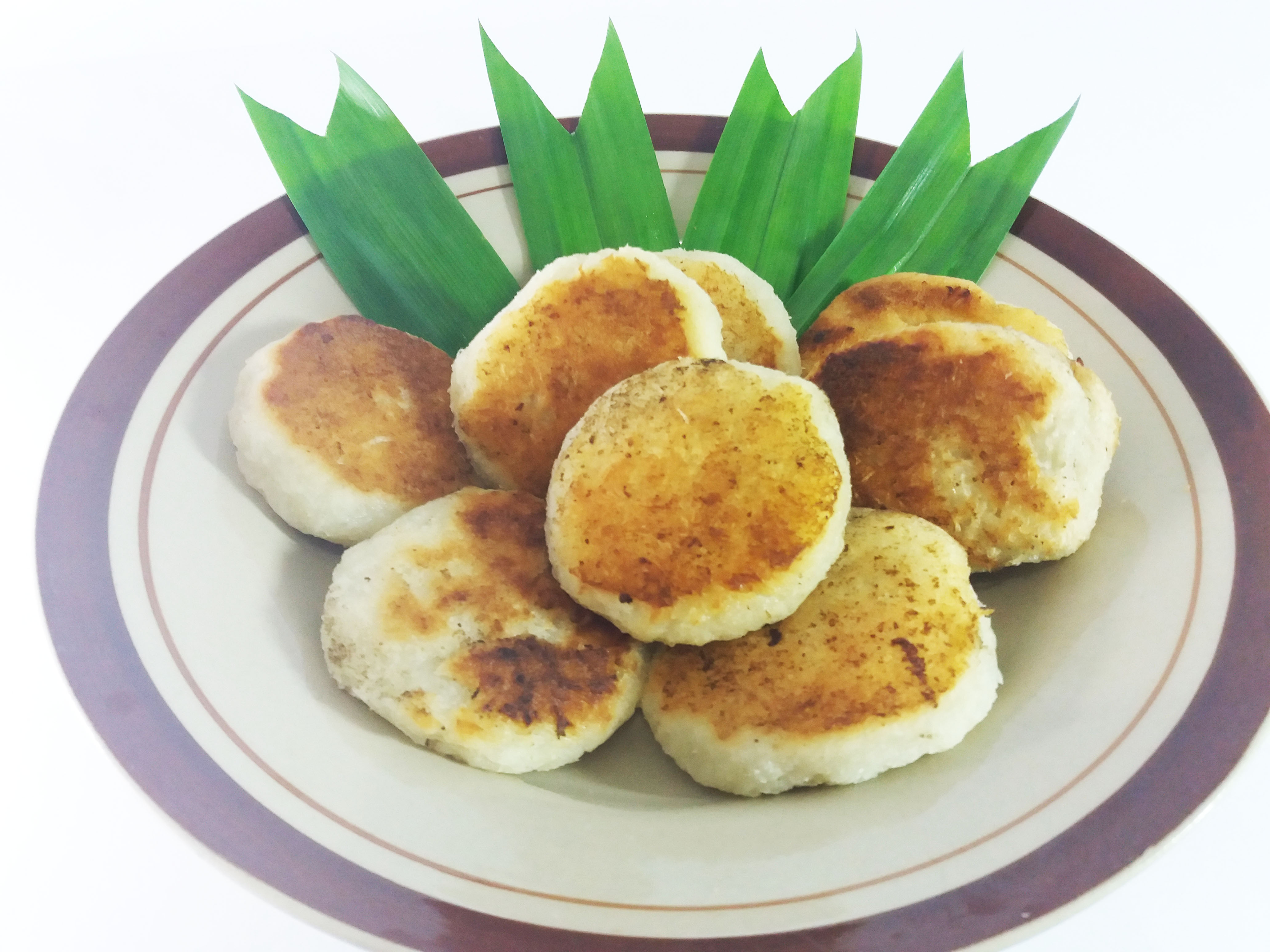 Wingko is traditional cake from Indonesia. This cake is made from sticky rice and coconut.